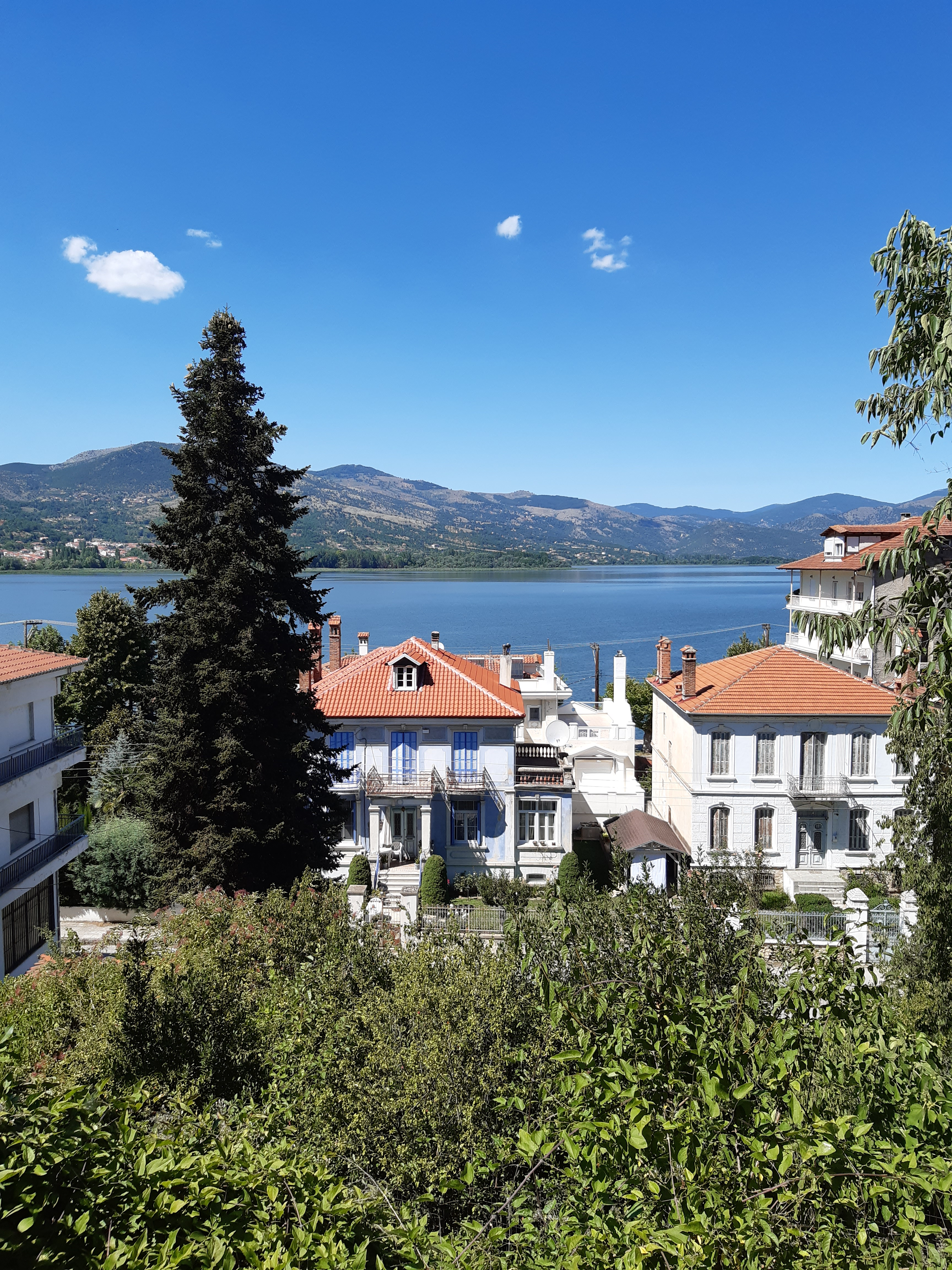 Dais and Ikonomidis Mansions in August 2020